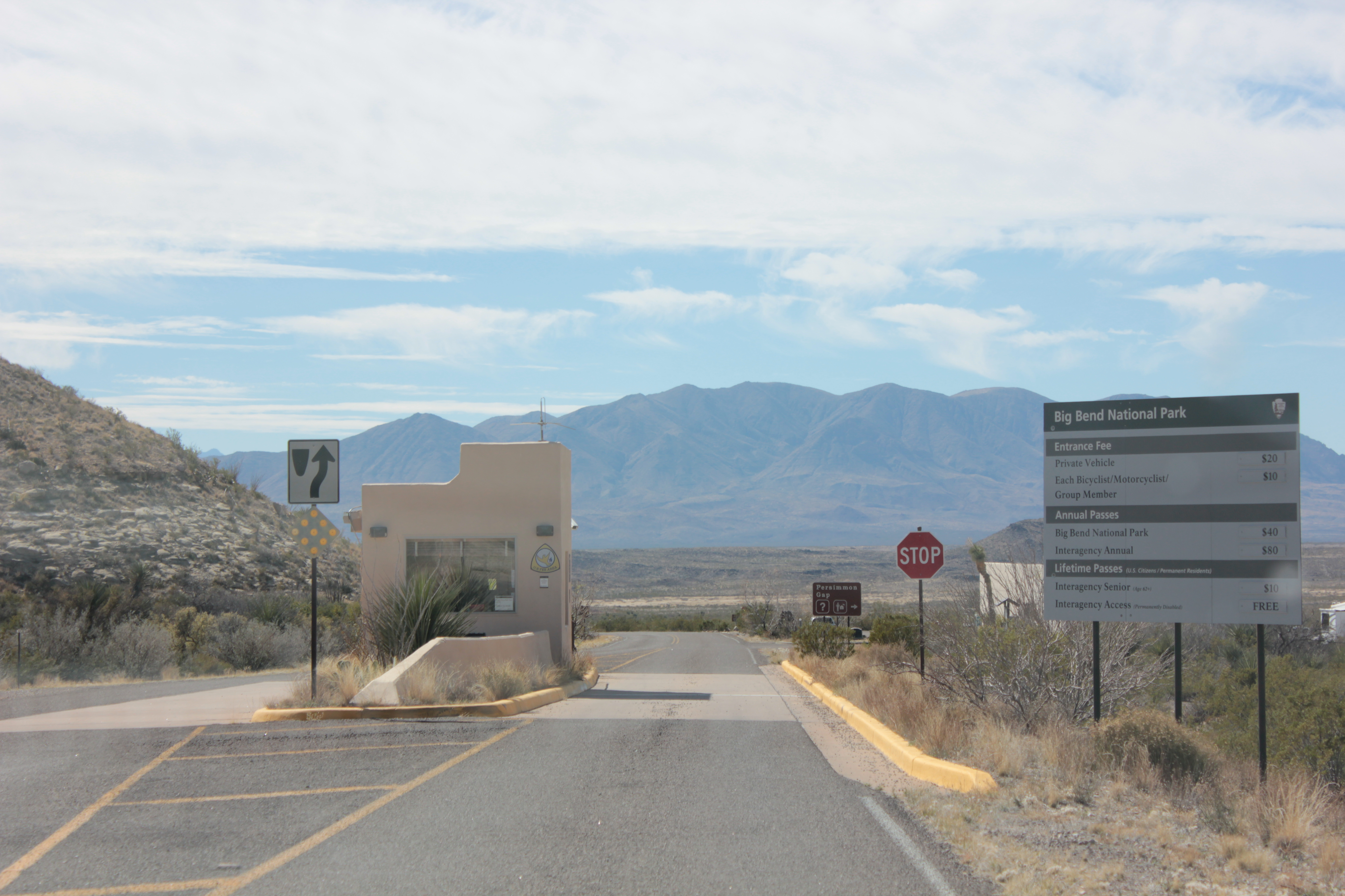 Big Bend National Park, Texas